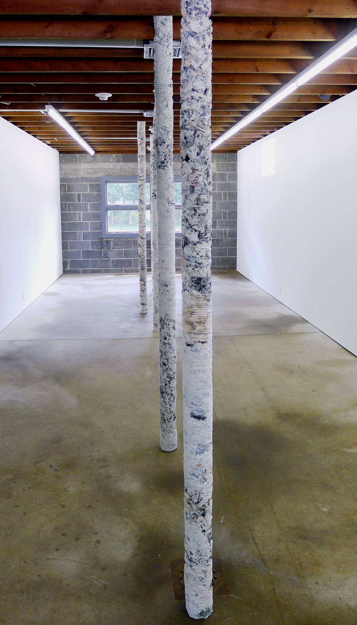 Helmut Lang, MAKE IT HARD, 2011, Resin, pigment and mixed media